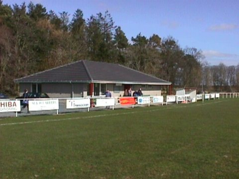 Formartine United Football Clubhouse Formartine United Football Clubhouse